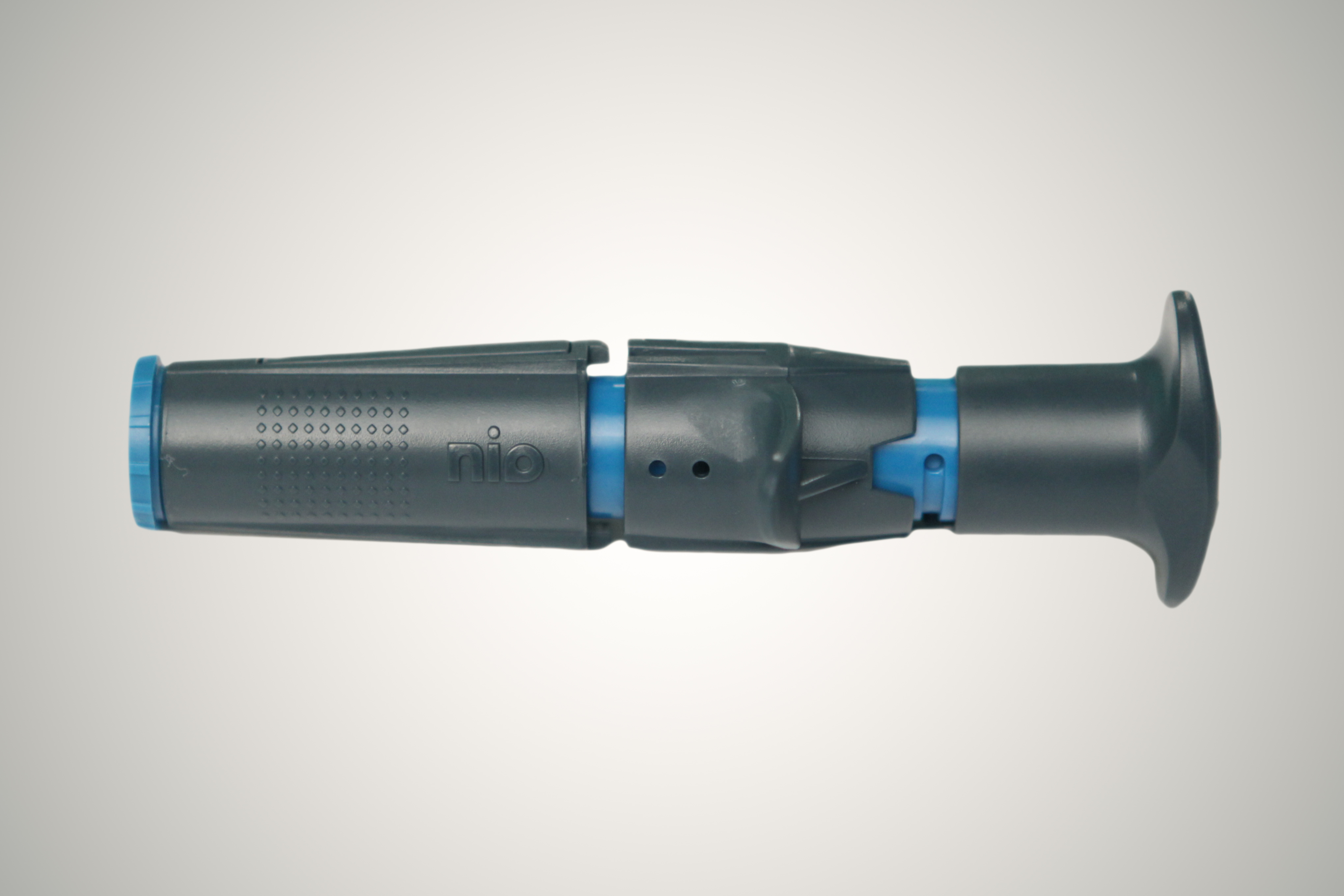 IO device